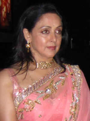 Indian actress Hema Malini at the opening party for the 2007 Bangkok International Film Festival at SF World in CentralWorld, Bangkok.